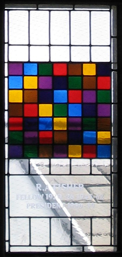 Stained glass window in the dining hall of Gonville and Caius College, in Cambridge (UK), commemorating Ronald A. Fisher, geneticist and statistician, who was a fellow and president of the college. The window represents a 7 by 7 Latin square, an experimental design used in statistics; the text on the windows reads: R.A. FISHER; FELLOW 1920-1926 1943-1962; PRESIDENT 1956-1959.